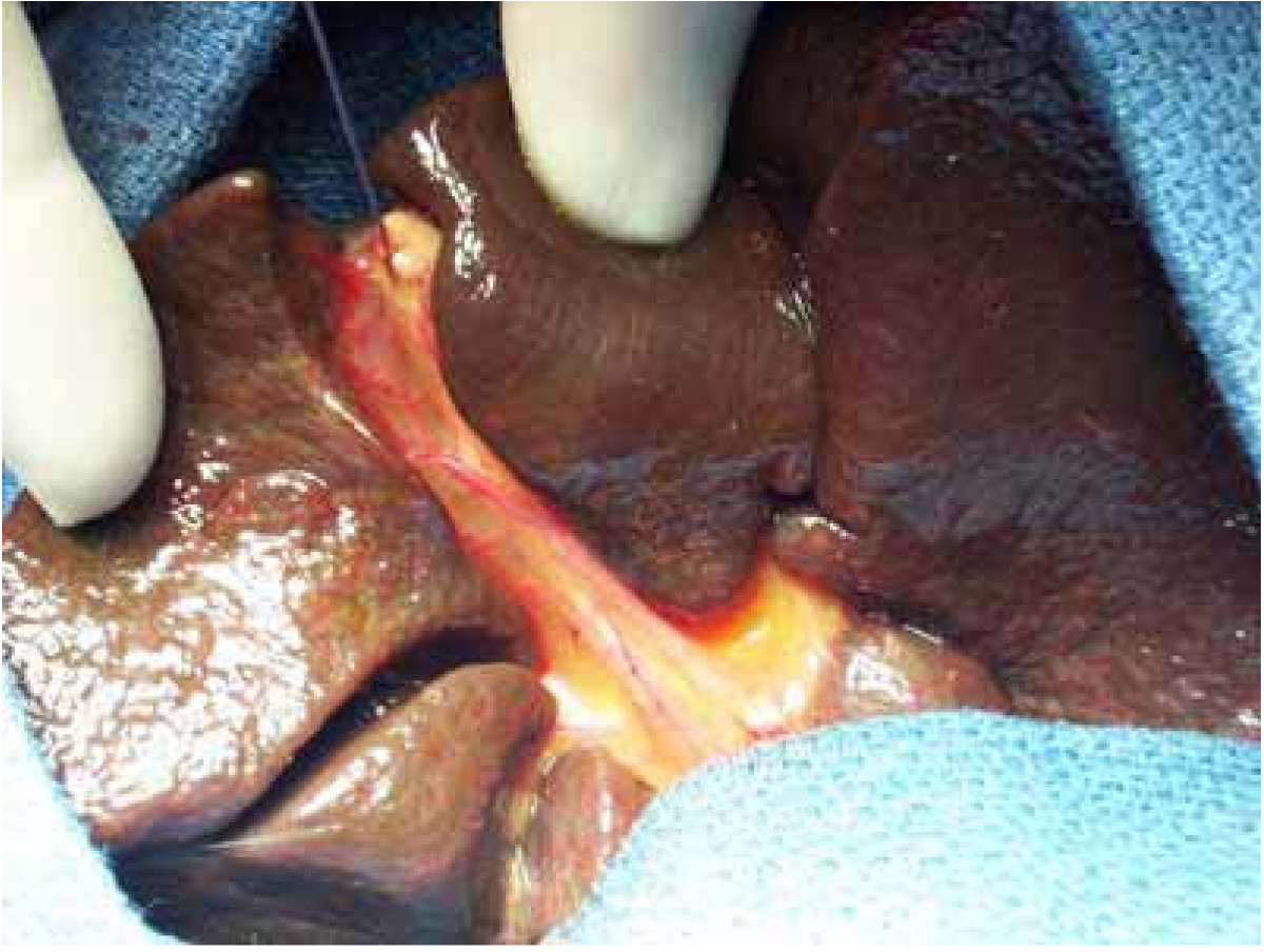 Operative view of complete extrahepatic biliary atresia.